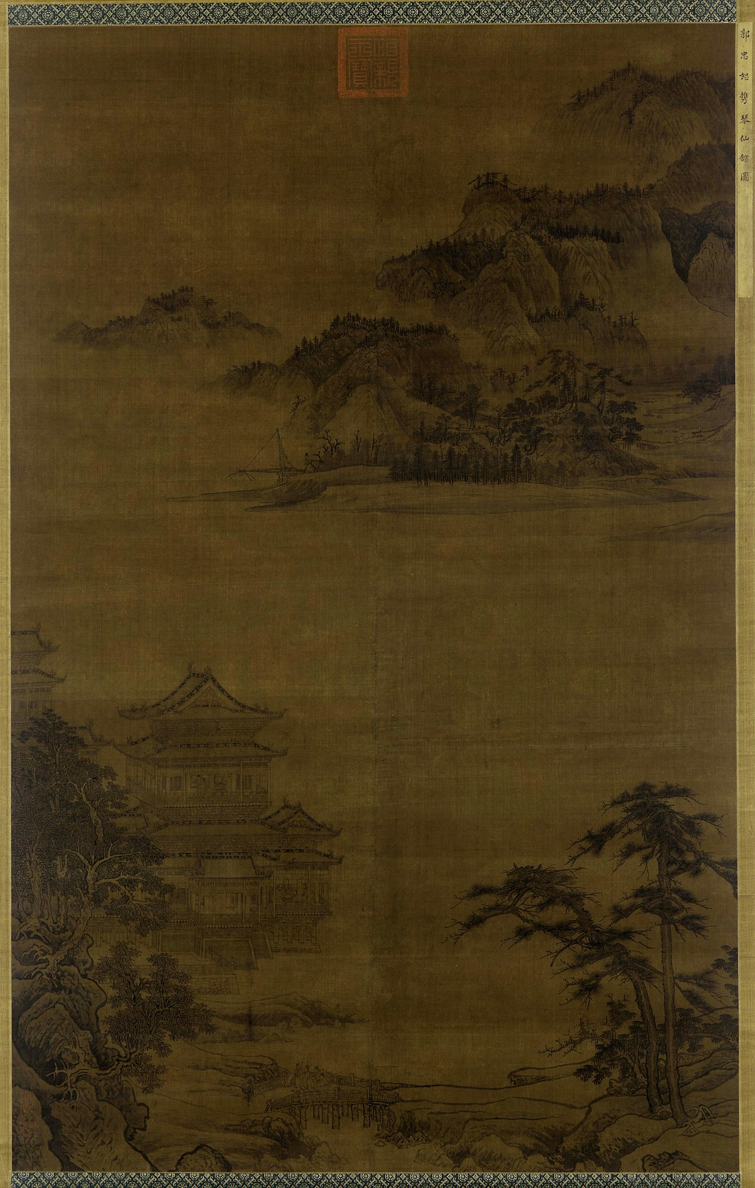 Guo Zhongshu, Bringing a Lute to an Immortal's Pavilion, Freer Gallery of Art, Washington